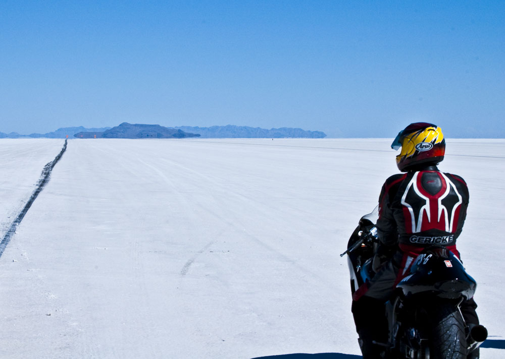 An eager motorcyclist racing a Suzuki Hayabusa at the Bonneville Salt Flats Speed Week.